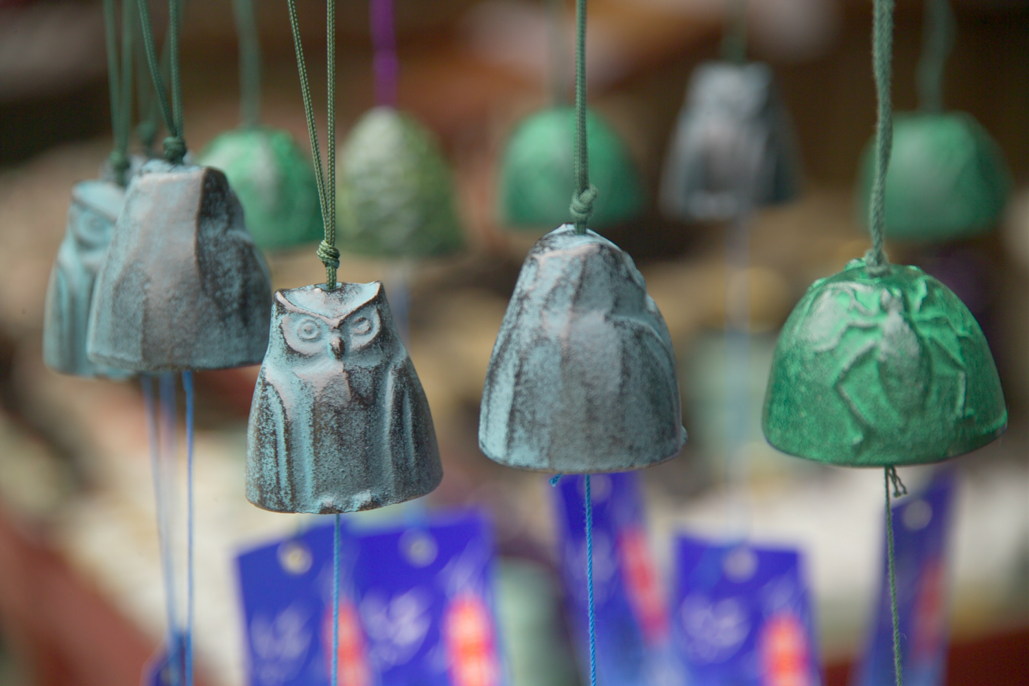 風鈴 Wind chimes, display in street in front of shop, Nagano, Japan